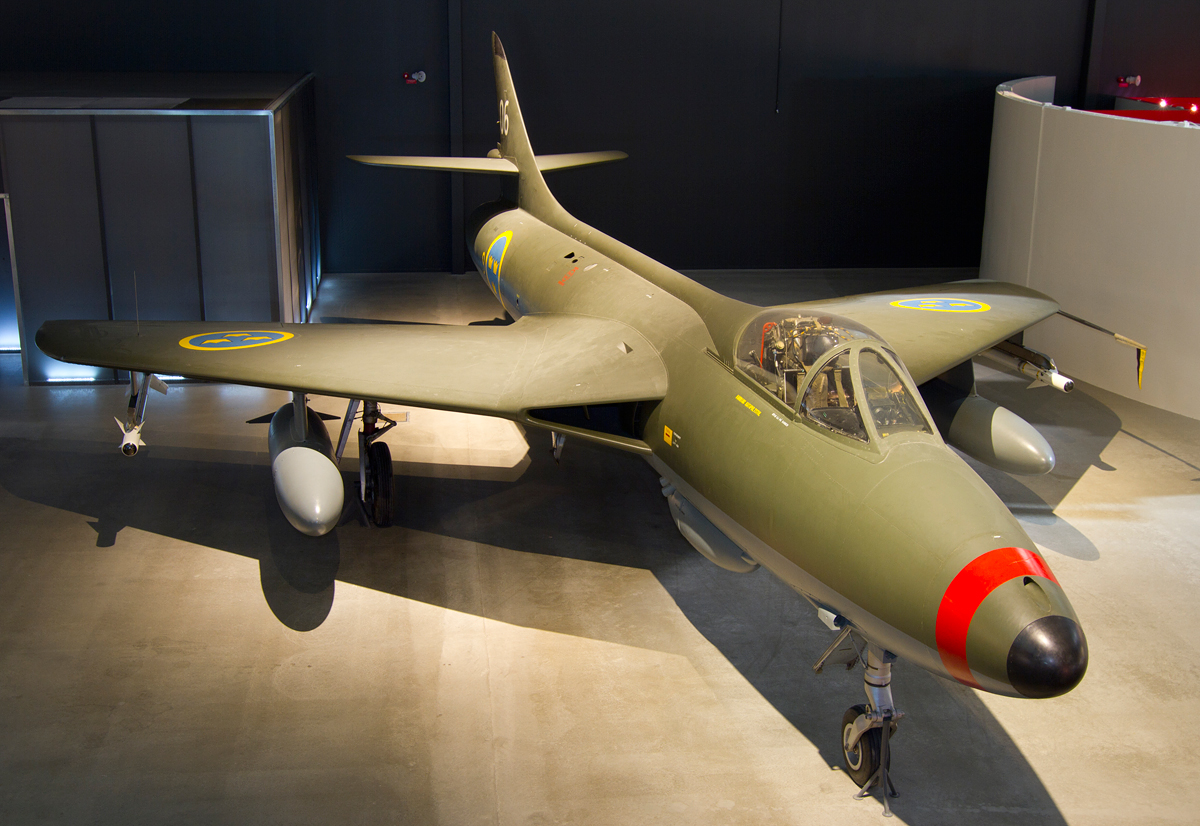 Swedish Airforce J34 Hawker Hunter Jetfighter on display at Swedish Airforce Museum in Linkoping